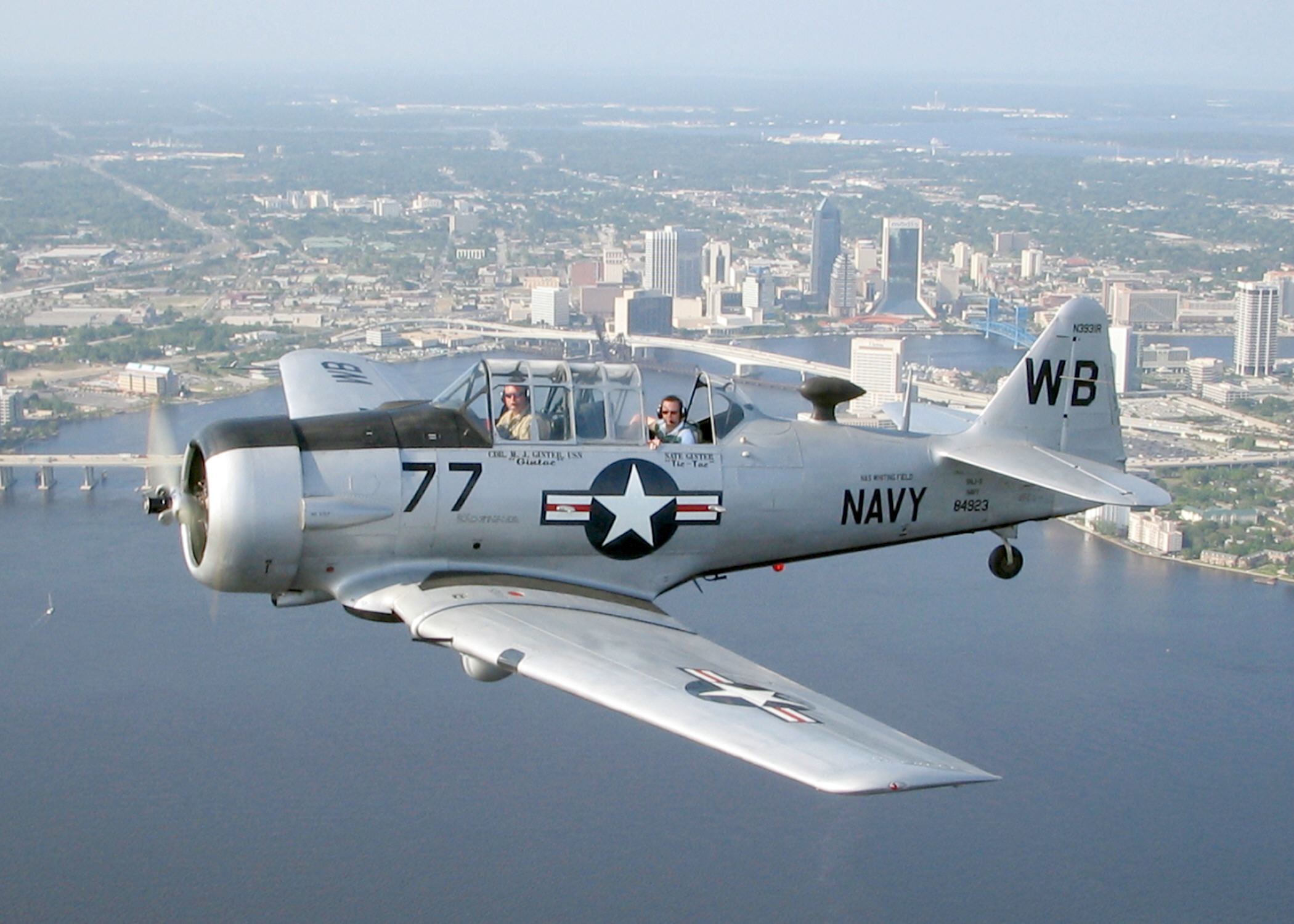 Cmdr. Mike Ginter, Operations Officer aboard USS John F. Kennedy (CV-67), raffled off a ride in his World War II T-6 Texan aircraft.